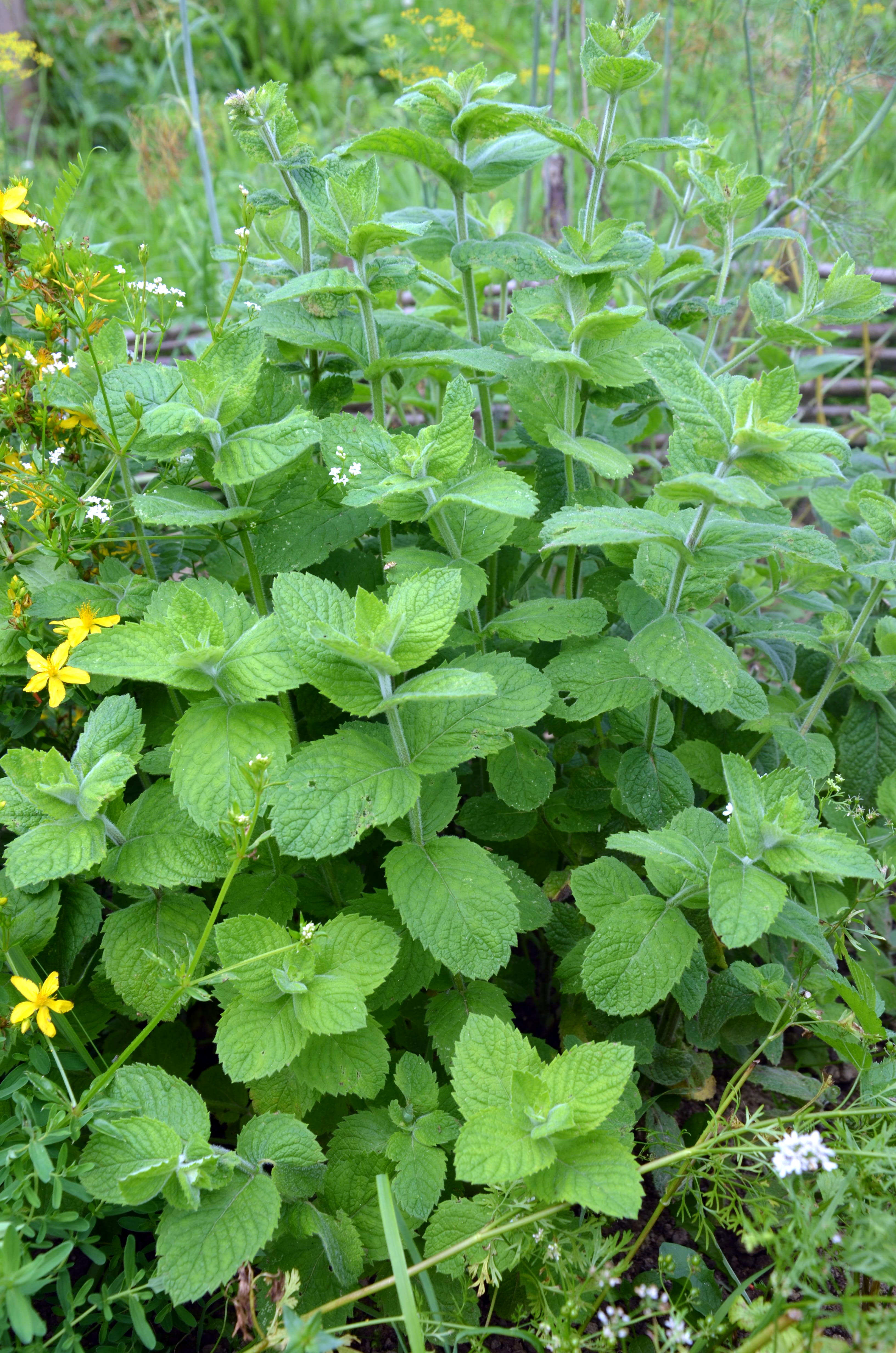 Melissa officinalis